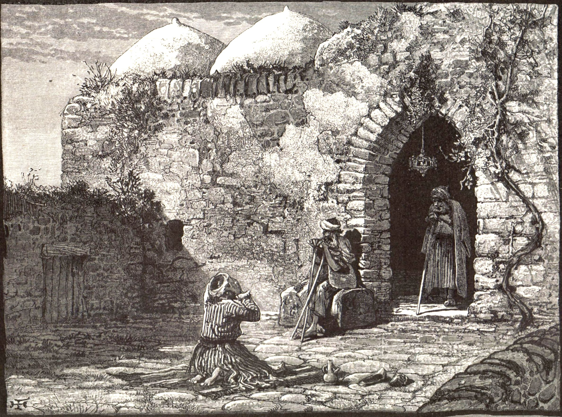 Tomb of Jonah in Mashhad former Gath-hepher